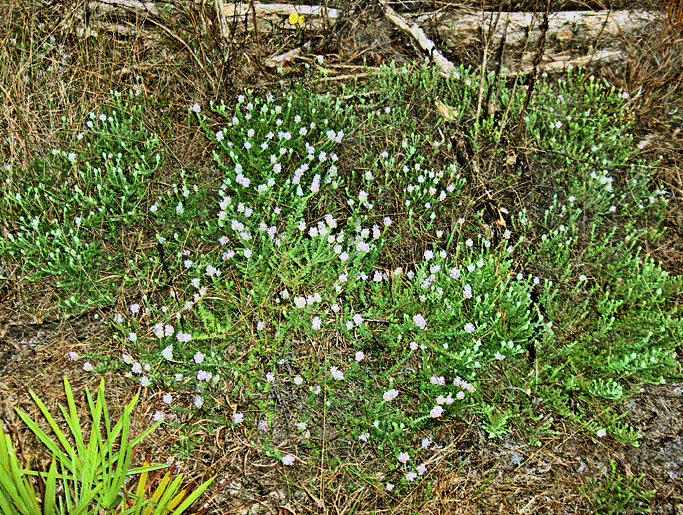 Minty-Rosemary